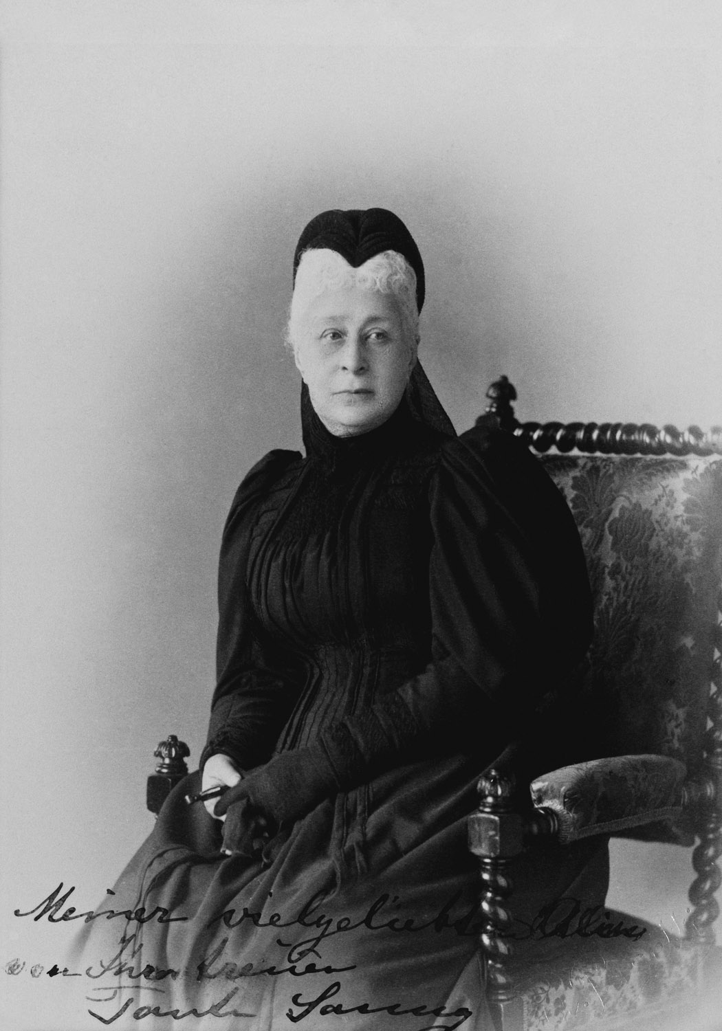 Grand Duchess Alexandra Iosifovna (1830–1911) Photograph of Grand Duchess Alexandra Iosifovna. She is sitting in a chair which is turned partly to the left. She is wearing dark mourning clothes including a headdress and veil. There is a handwritten note at the bottom of the photograph.